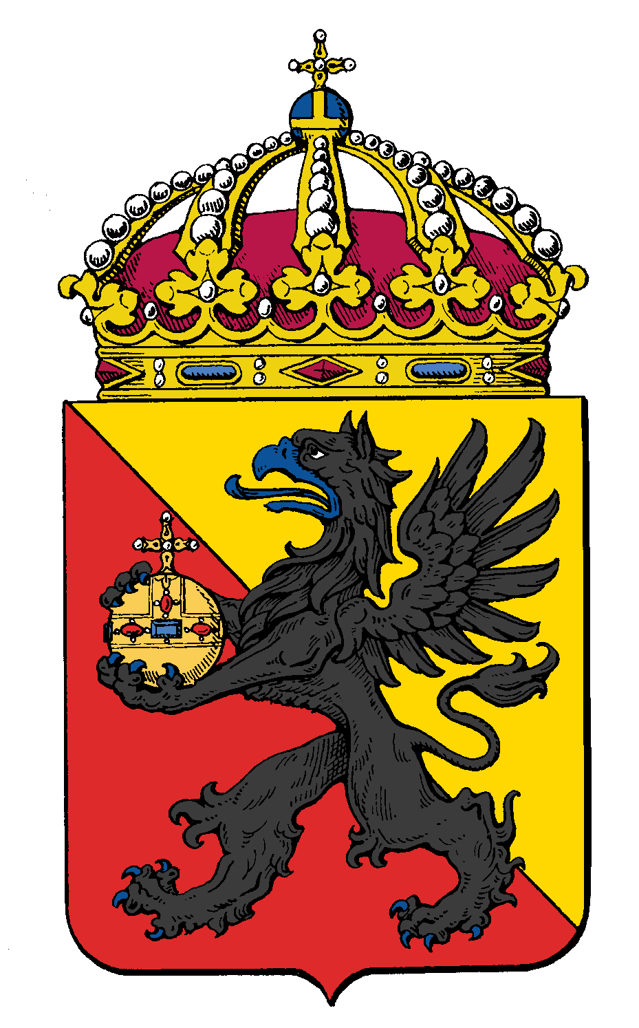 Coat of arms of the province of Stockholm before 1968.